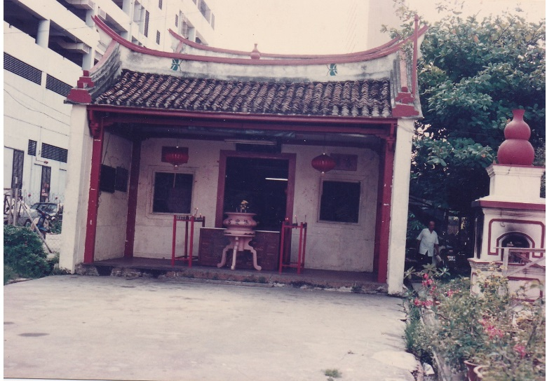 poh onn kong temple before renovate 中文（中国大陆）: 保安宫未重建前